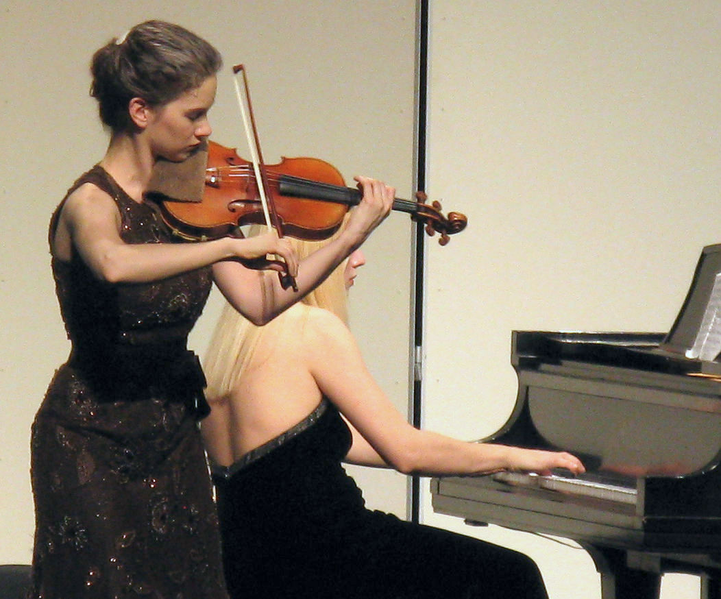 Hilary Hahn, violin, and Valentina Lisitsa, piano, Kuss Auditorium, Clark State Performing Arts Center, Springfield, Ohio, March 3, 2009